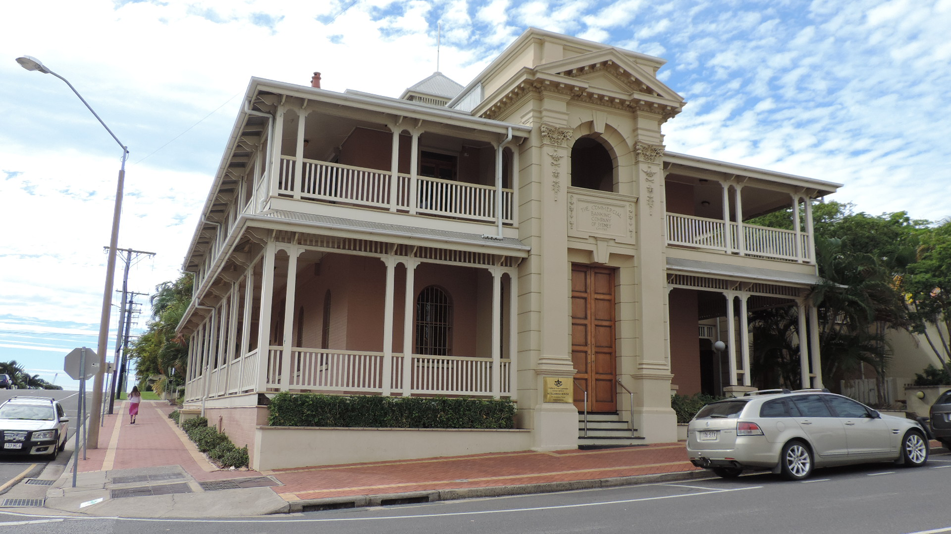 Kullaroo House, formerly Commercial Banking Company of Sydney Ltd (Gladstone Branch), 2014